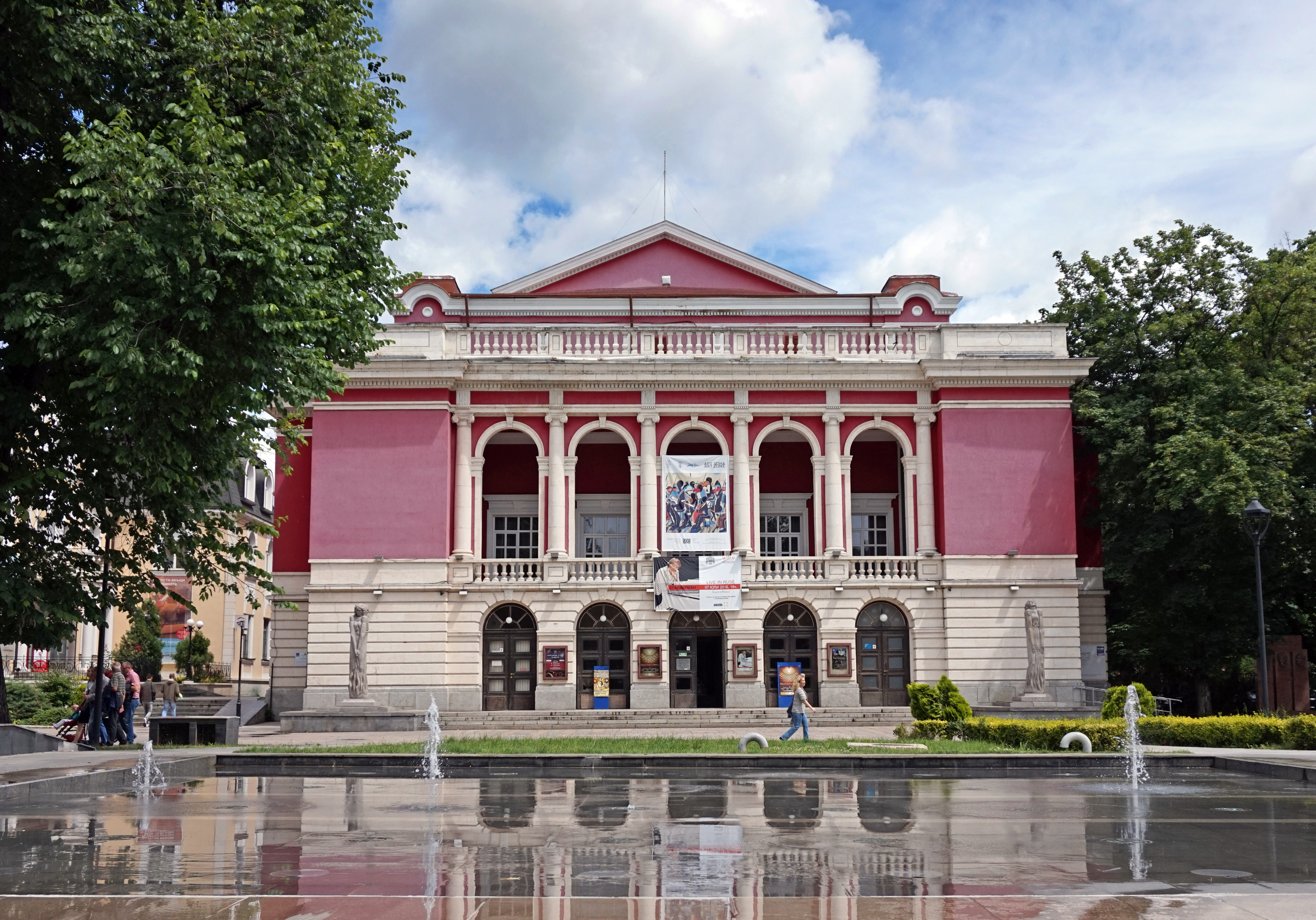 Rousse operaThis photograph was taken with a Sony ILCE-5000